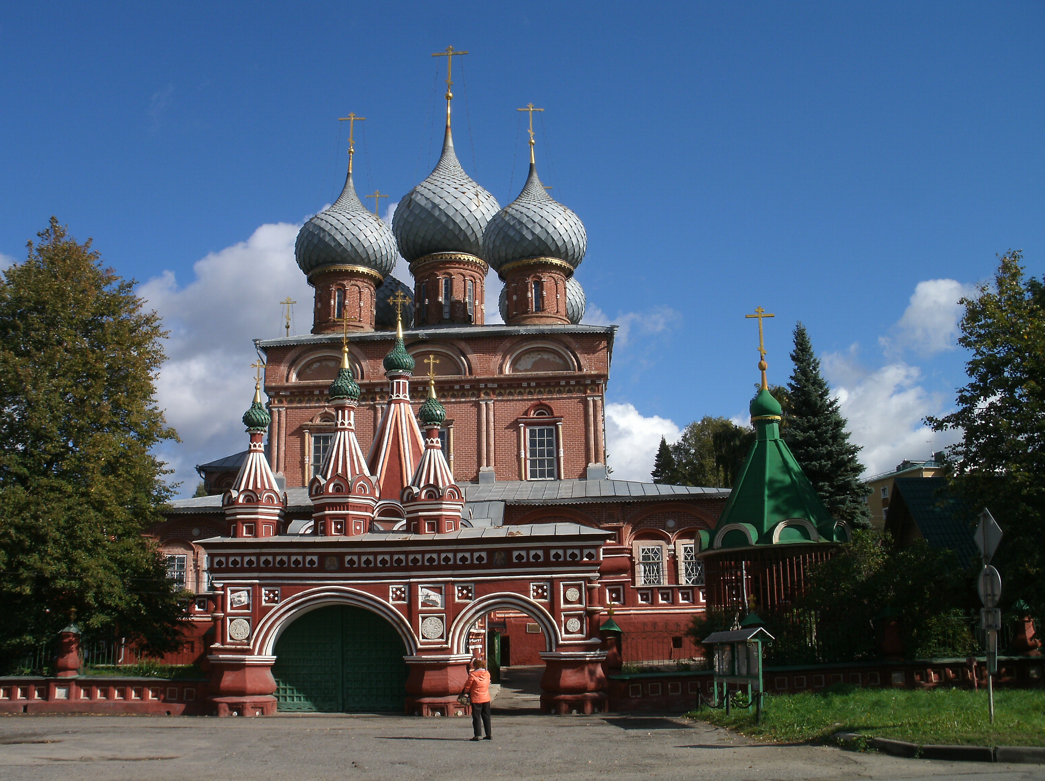 Church of the Resurrection on Debra, Kostroma